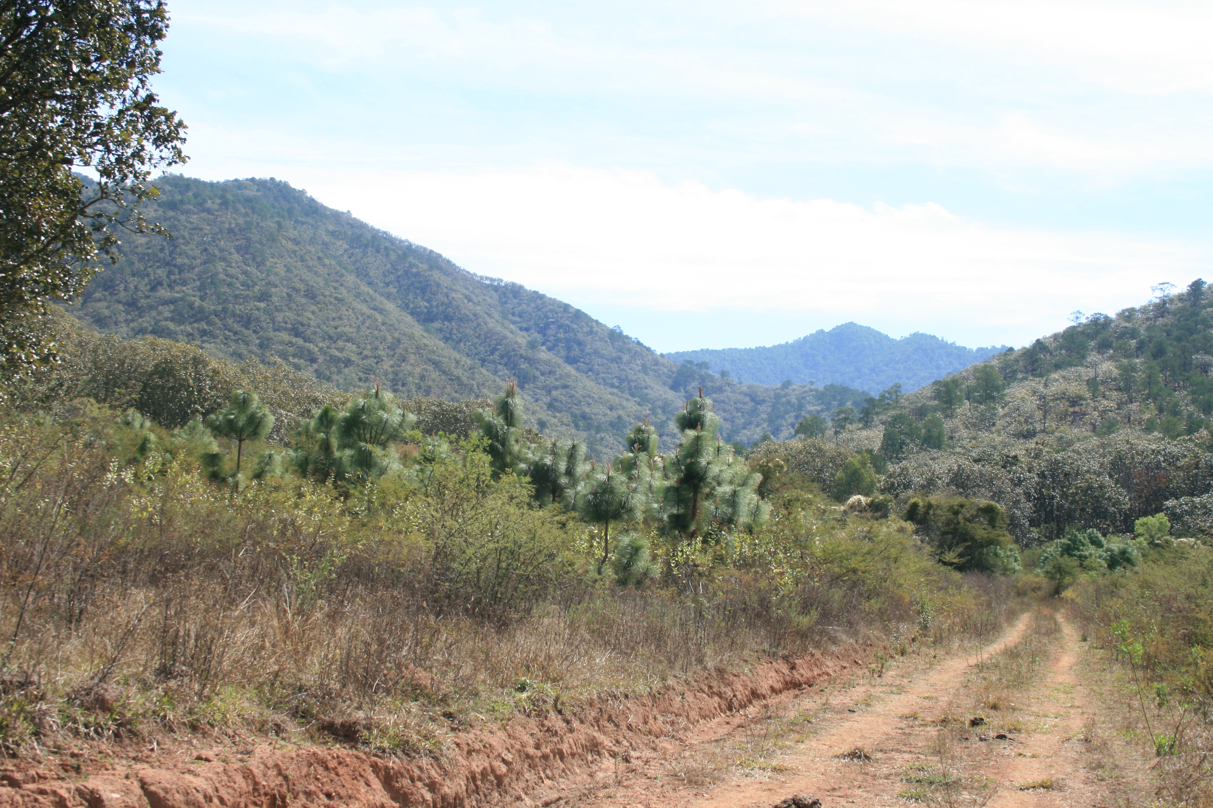 Dirt Road